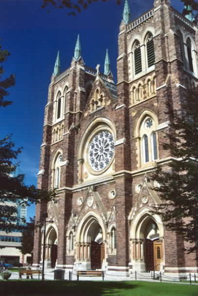 photo by Einar Einarsson Kvaran London Catholic St. Peters Cathedral Basilica, London, Ontario